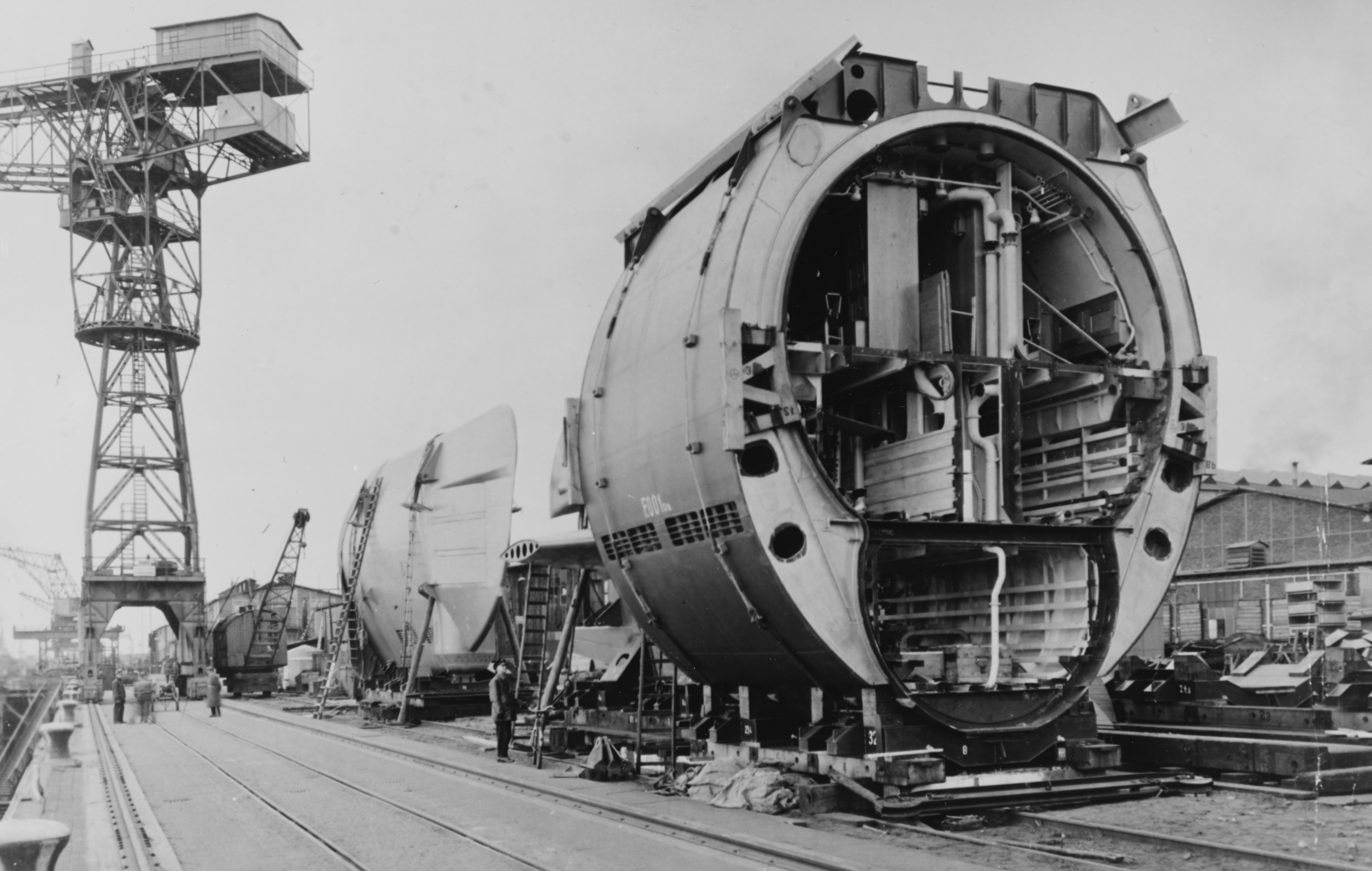 Complete sections (pressure hull with outer skin) of submarine type XXI. Section 8th in the background and probably 7th in the front.